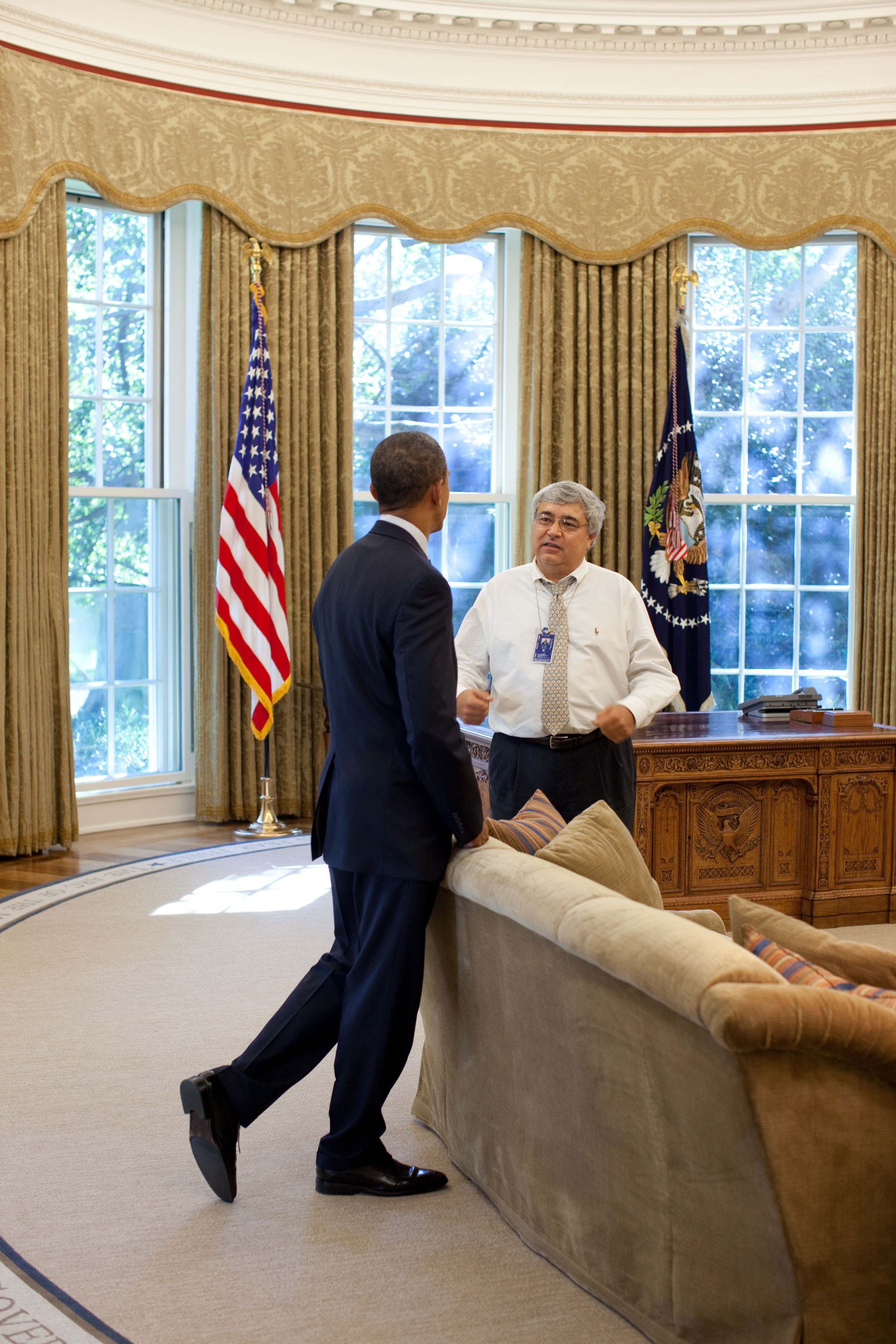 President Barack Obama talks with interim Chief of Staff Pete Rouse in the Oval Office, Oct. 7, 2010. (Official White House Photo by Pete Souza) This official White House photograph is in the public domain from a copyright perspective, so while restrictions such as personality or privacy rights may apply, in general, manipulations are allowed.